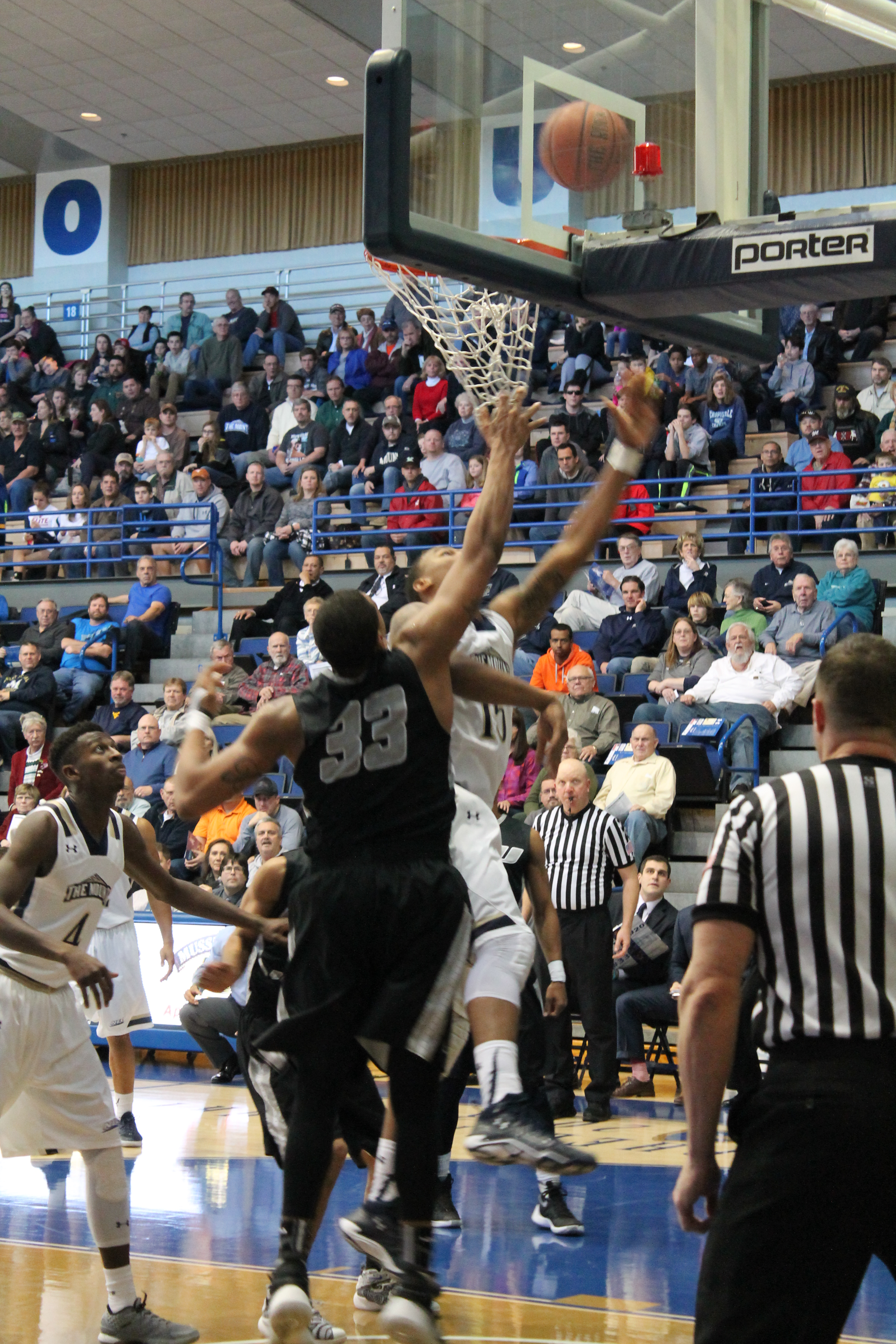 LIU-Brooklyn men's basketball player Jerome Frink contests a shot during a Northeast Conference game against Mount St. Mary's on January 2, 2016 at Knott Arena in Emmitsburg, Maryland.